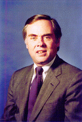 Anthony C. E. Quainton